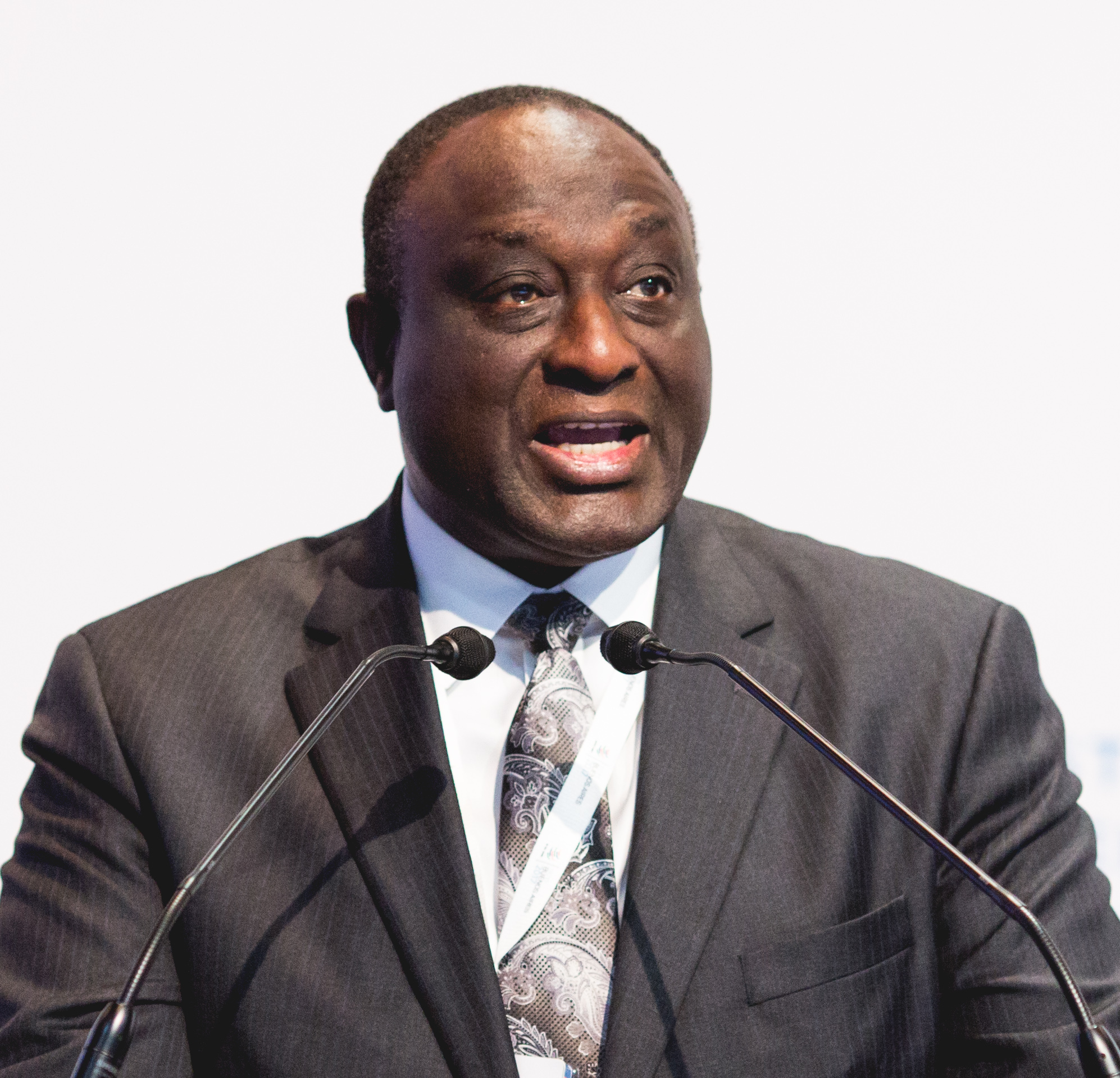 Photos from the plenary session 12 December morning photo gallery may be reproduced provided attribution is given to the WTO and the WTO is informed. Photos: © WTO/ Cuika Foto